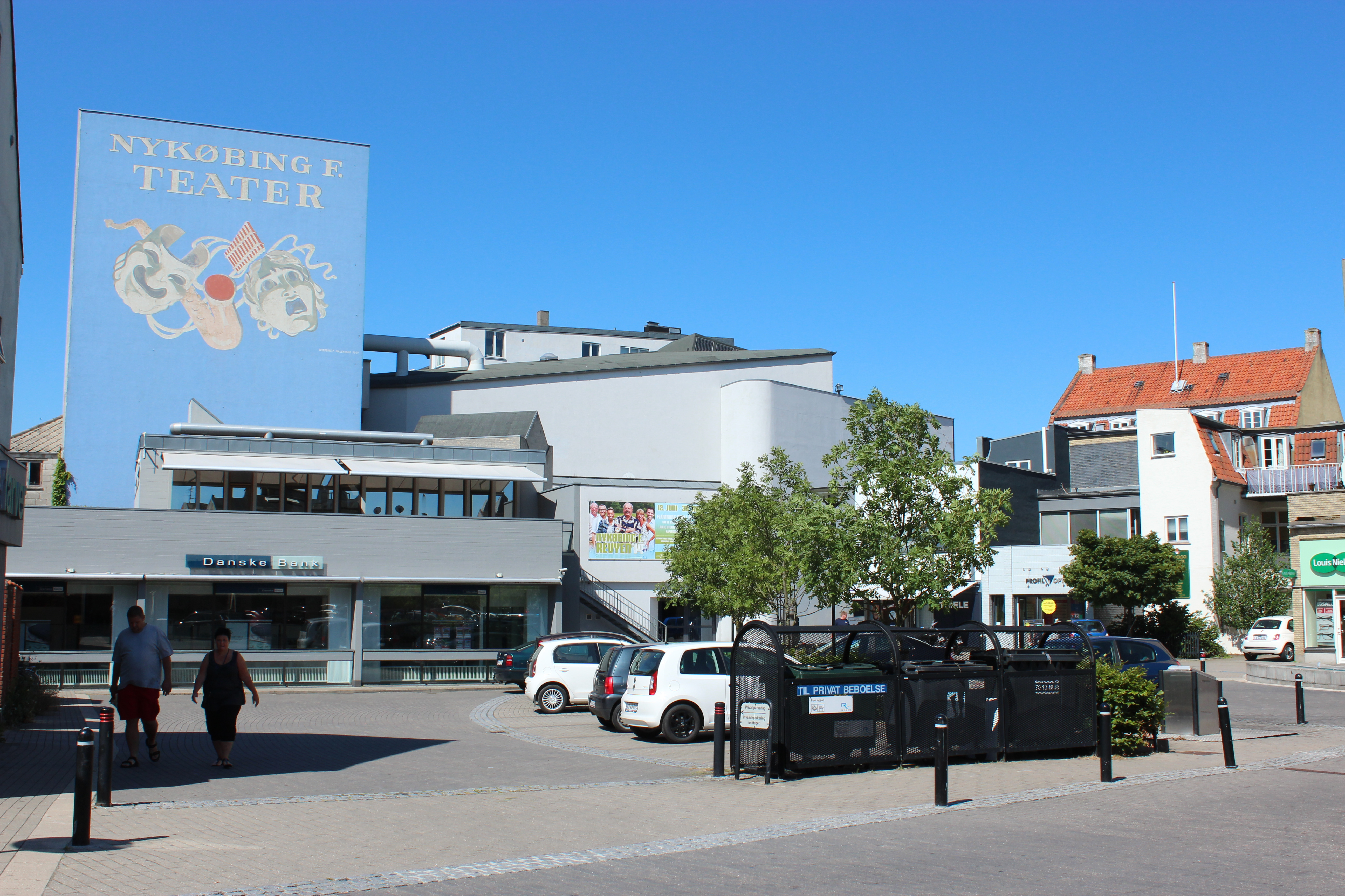 The back of Nykøbing Teater (Nykøbing Theater)